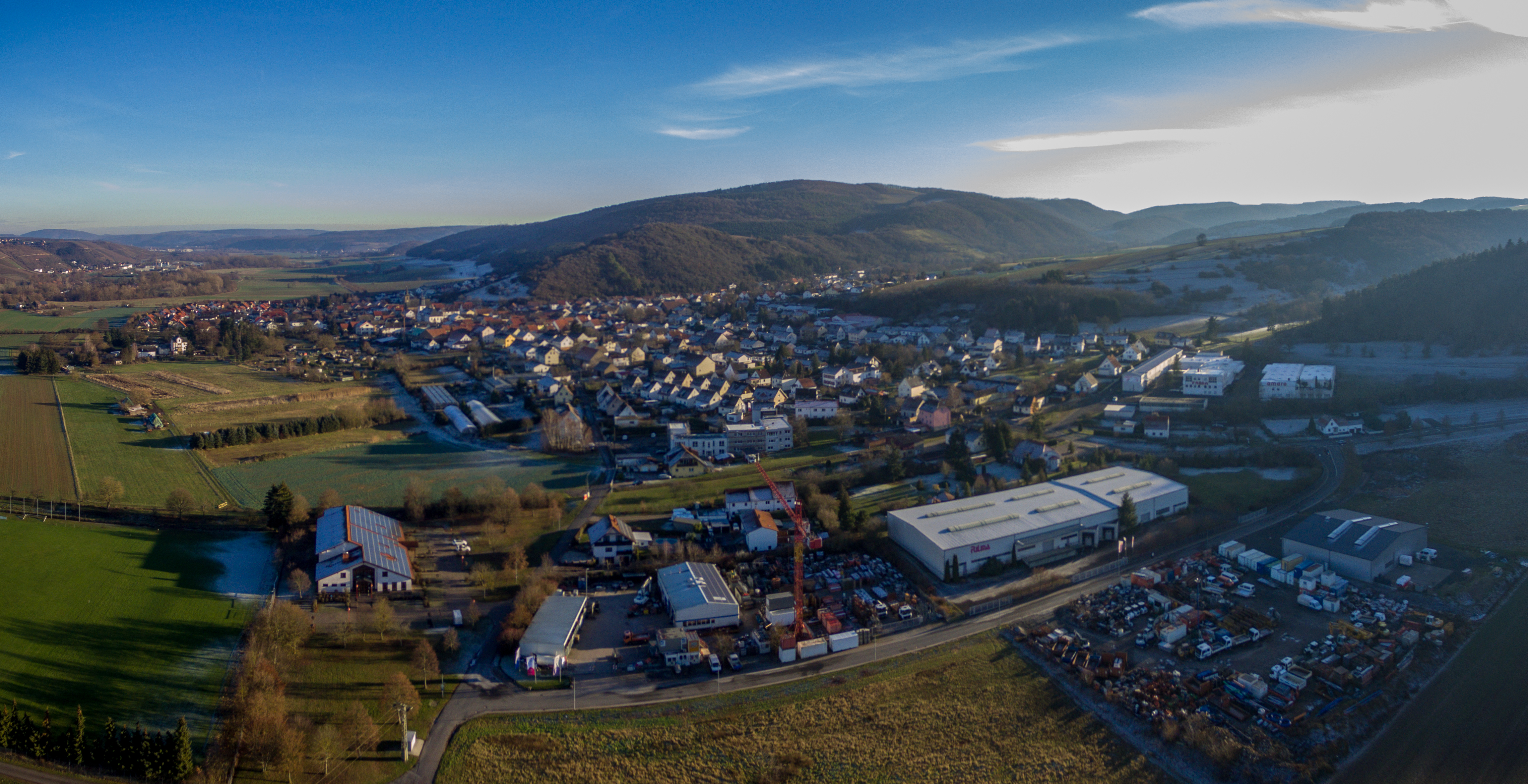 Merxheim drone picture